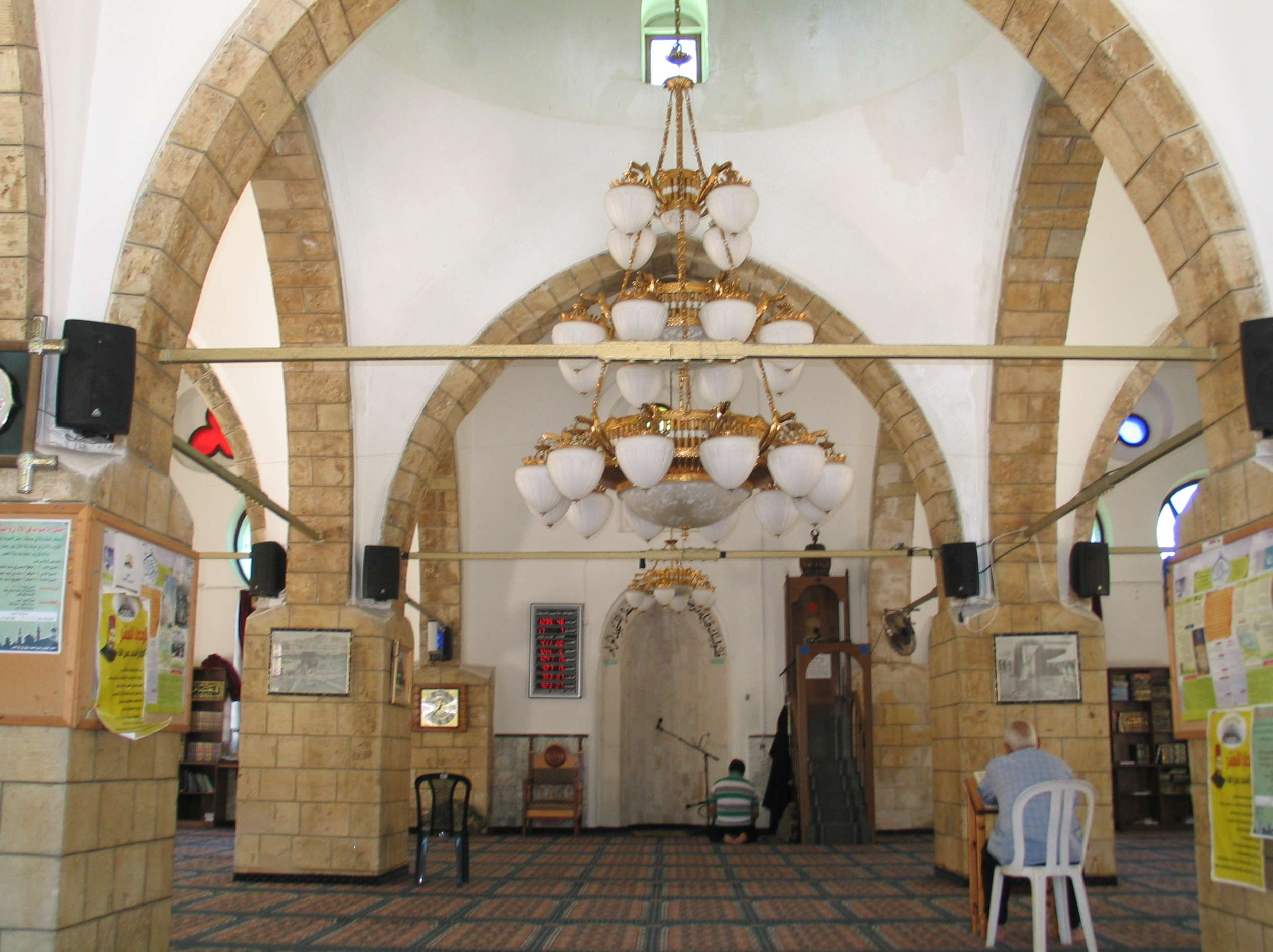 Hassan Bek mosque, Tel Aviv Yafo, Israel.